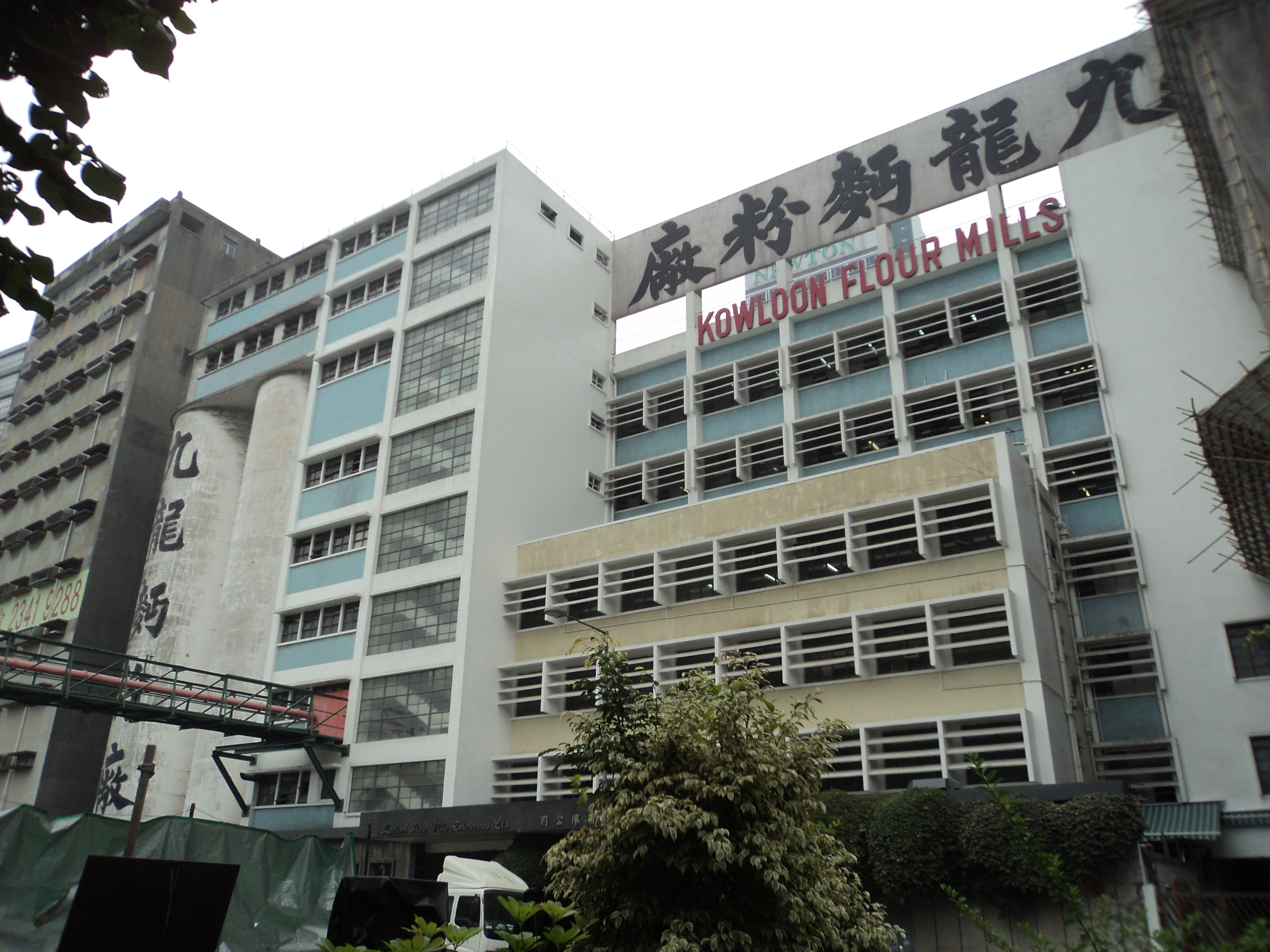 Kowloon Flour Mills